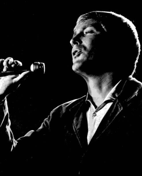 Trade ad for Ray Griff's single "The Entertainer".To better adapt it to his respective Wikipedia article, the ad was cropped and cleaned in a graphics editing program. The original can be viewed at the source below.